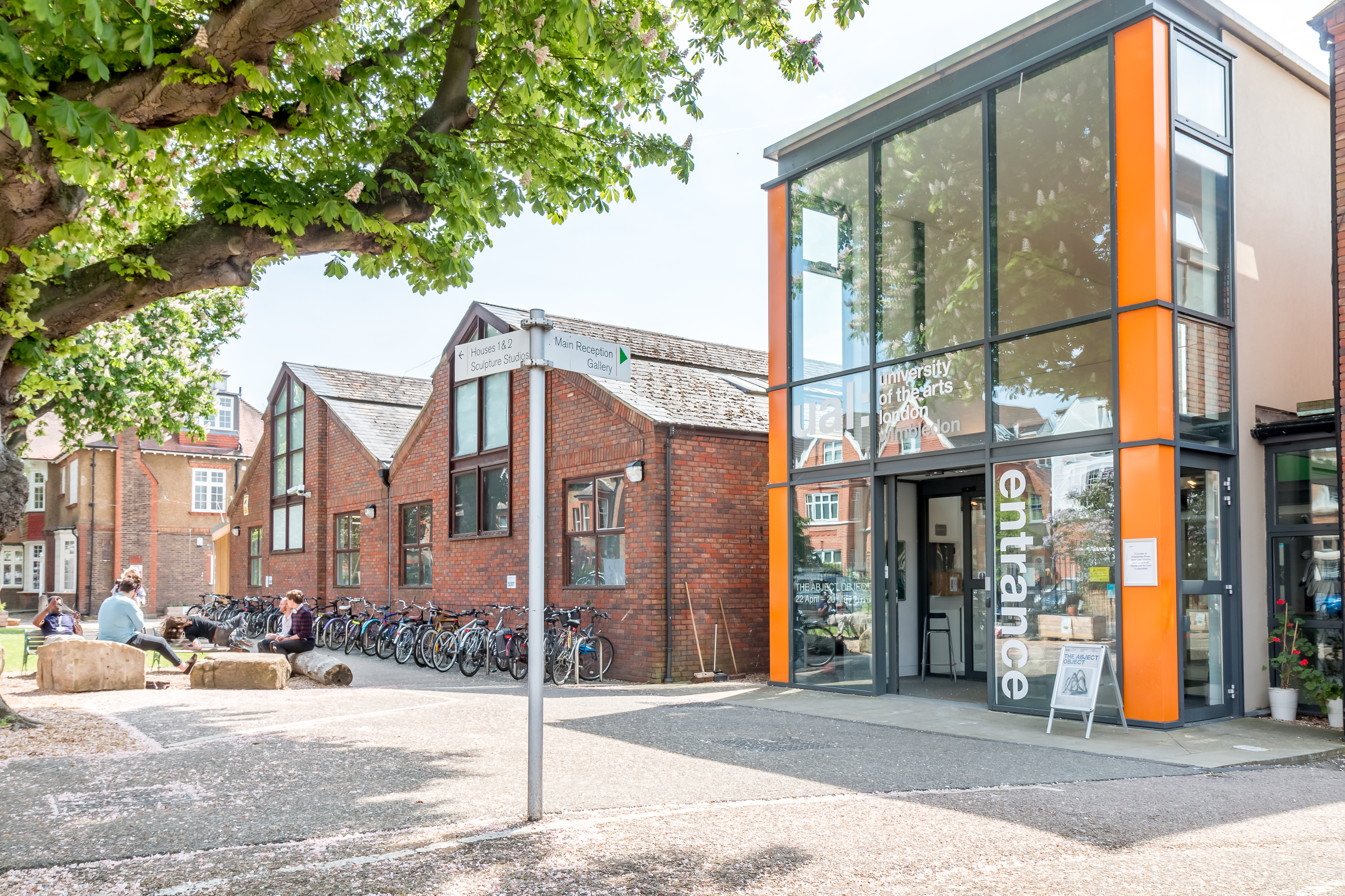 Entrance of Wimbledon College of Arts on Merton Hall Road